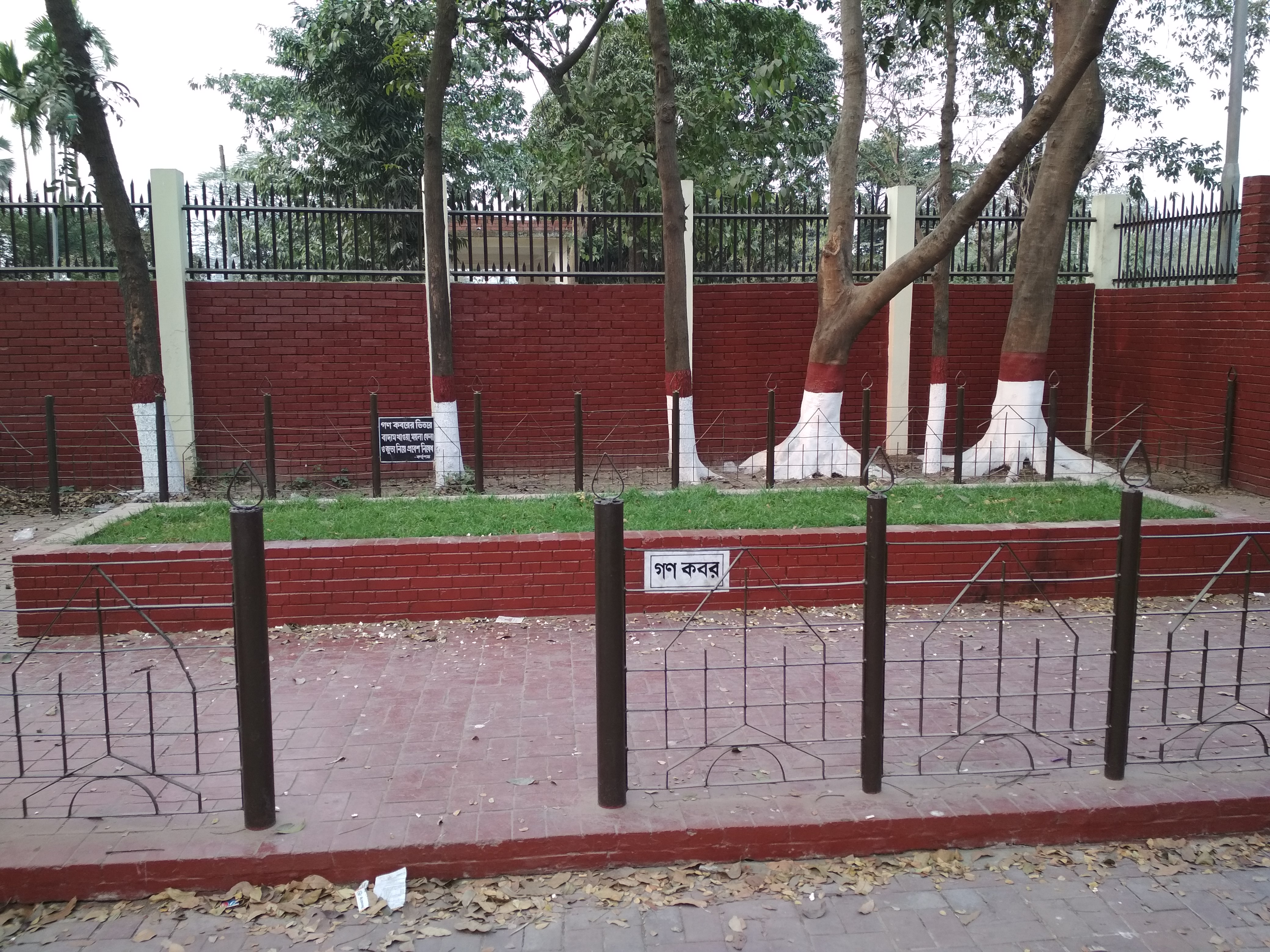 মিরপুর শহীদ বুদ্ধিজীবী গণকবর। এটি মিরপুরে অবস্থিত। এই কমপ্লেক্সে মিরপুর শহীদ বুদ্ধিজীবী স্মৃতিসৌধ-ও অবস্থিত।